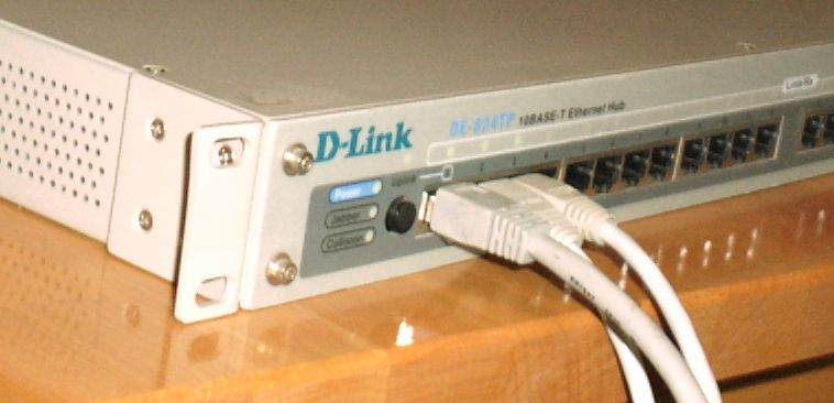 Een hub Copyright (C) 2004 Willem Penninckx GFDL Permission is granted to copy, distribute and/or modify this photo under the terms of the GNU Free Documentation License, Version 1.2 or any later version published by the Free Software Foundation; with no Invariant Sections, no Front-Cover Texts, and no Back-Cover Texts.